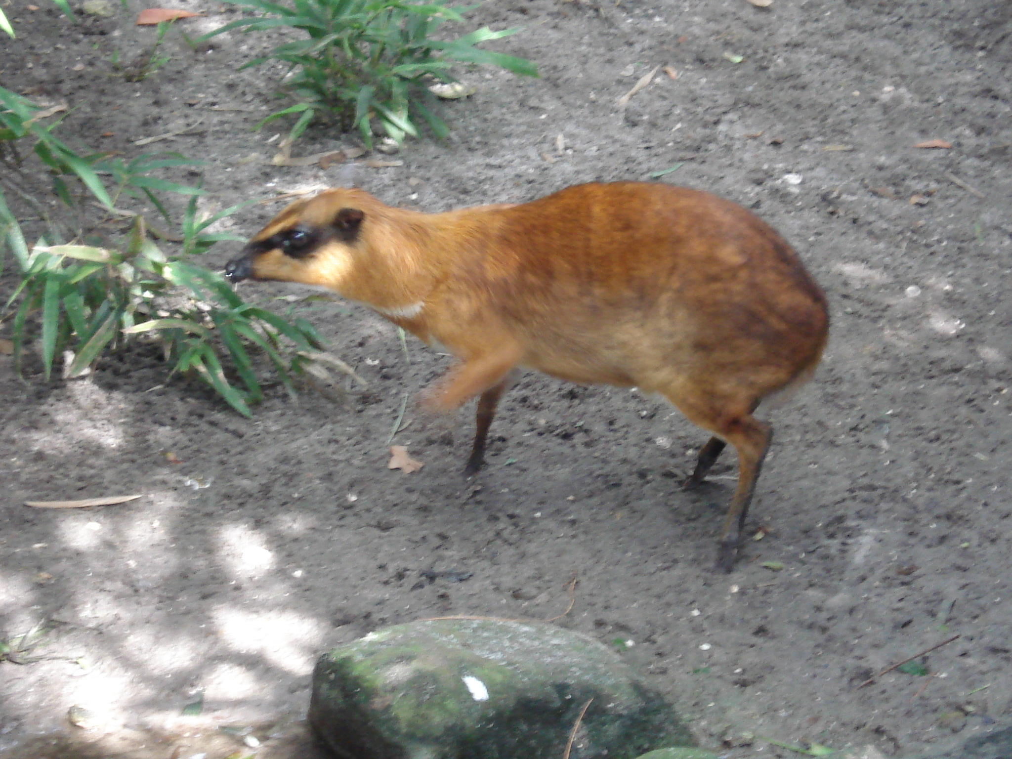 Location: Palm Beach Zoo At Dreher Park.